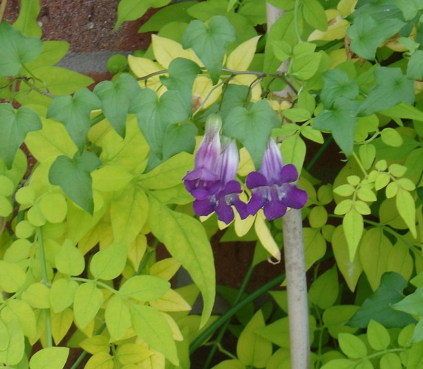 Amazing what will grow outside these days! Several Maurandya I know of have overwintered in Sussex. A nice little herbaceous climber.